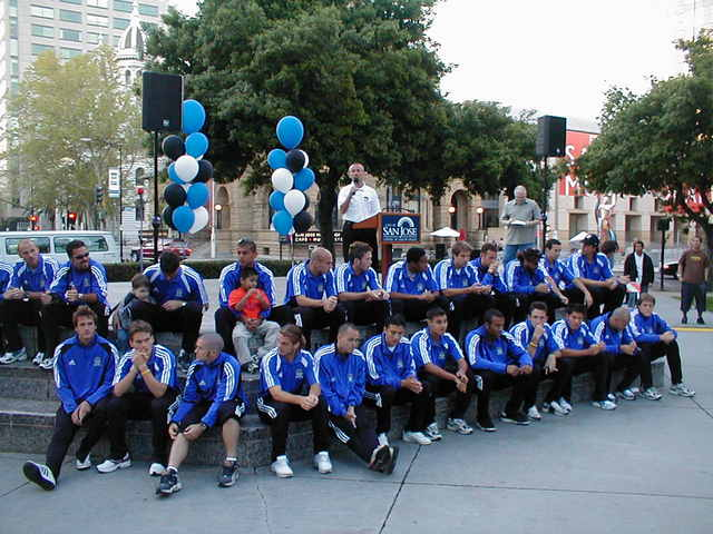 The players of the San Jose Earthquakes sit in Plaza de César Chávez for group photos.